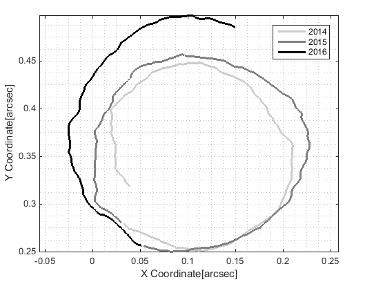 instantaneous pole location from 2014 till first half of 2016